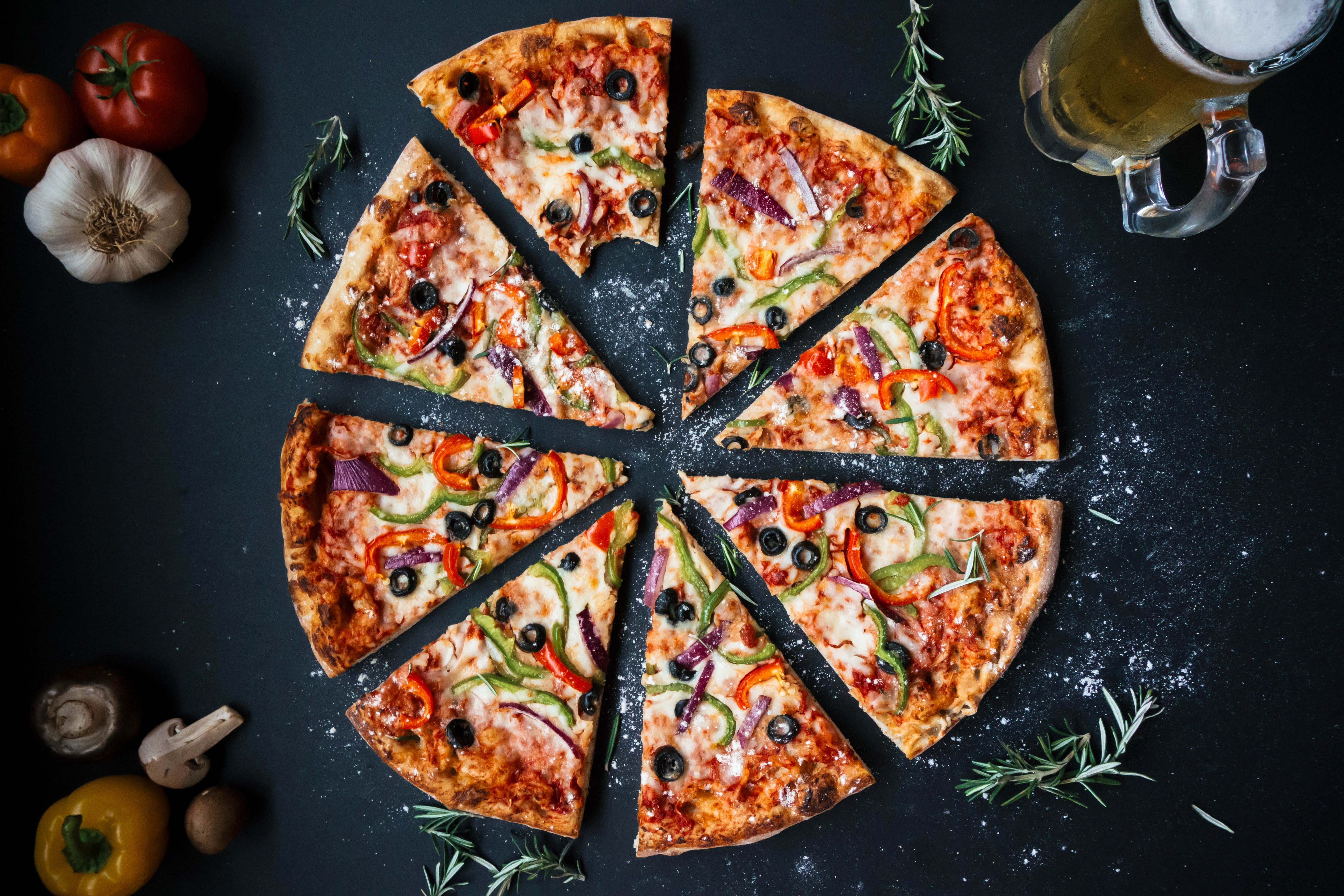 A pizza cut into eight slices, with one slice having a bite taken out of it.